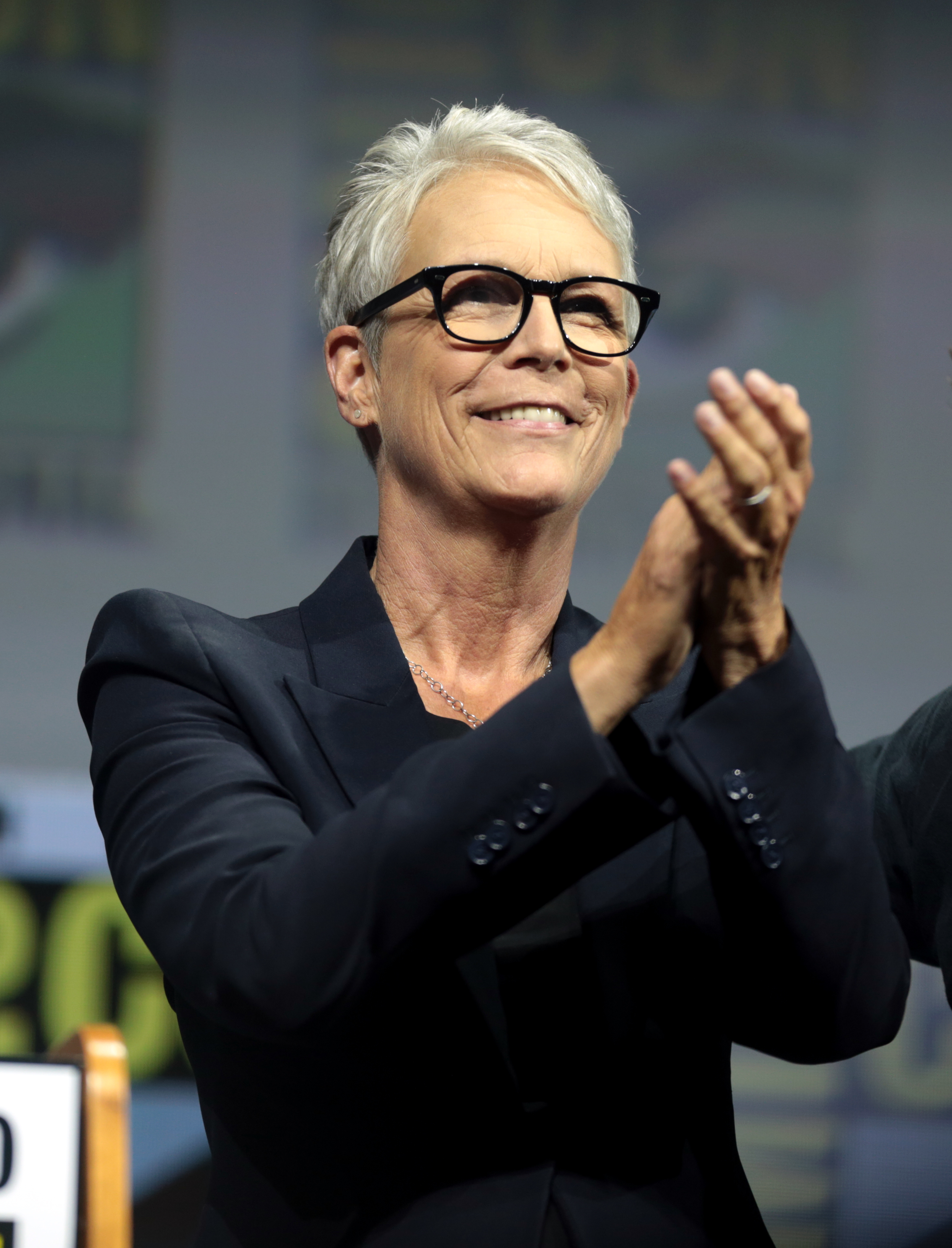 Jamie Lee Curtis speaking at the 2018 San Diego Comic Con International, for "Halloween", at the San Diego Convention Center in San Diego, California.